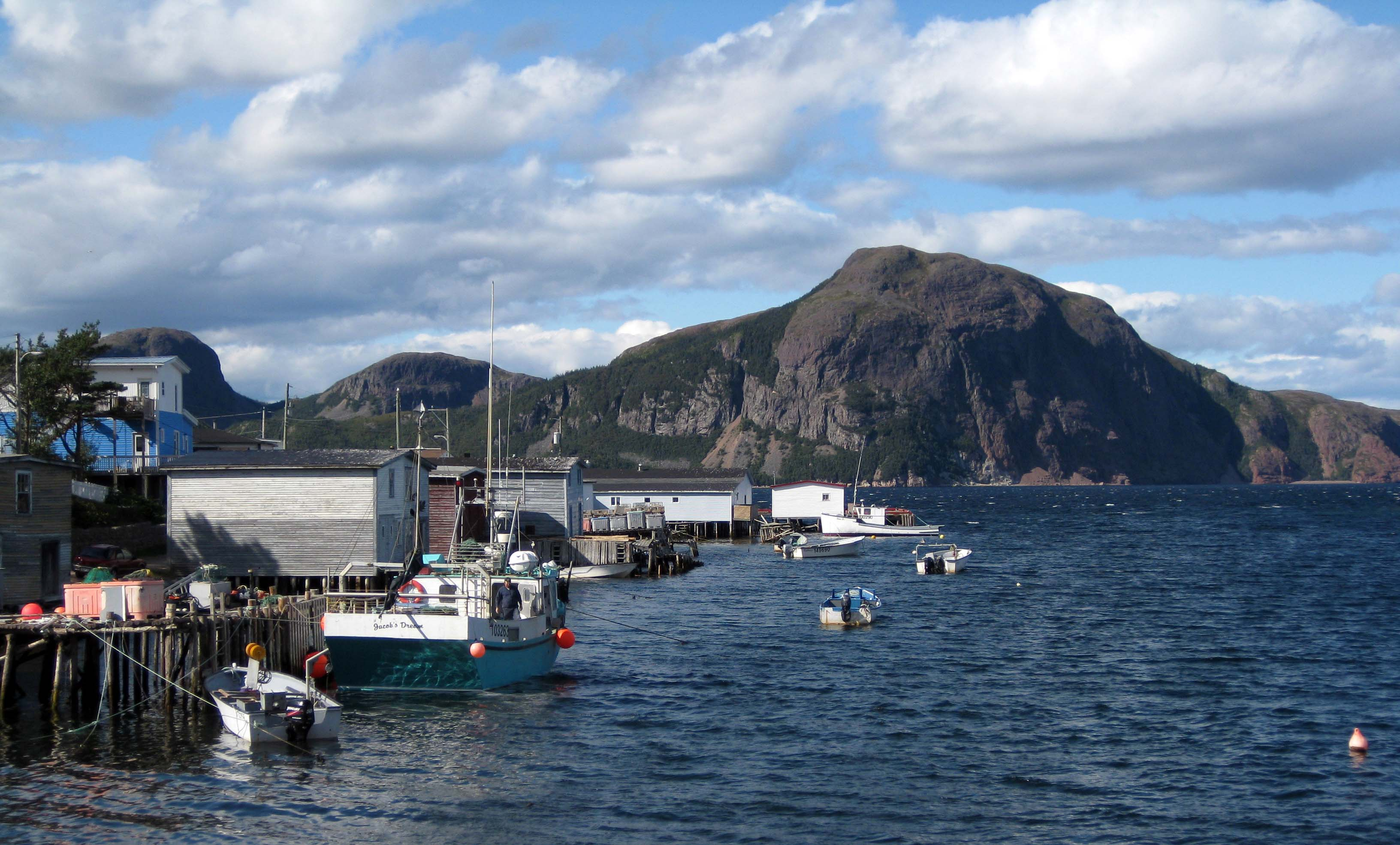 Belleoram is an isolated fishing village on the Connaigre Peninsula, southern Newfoundland.